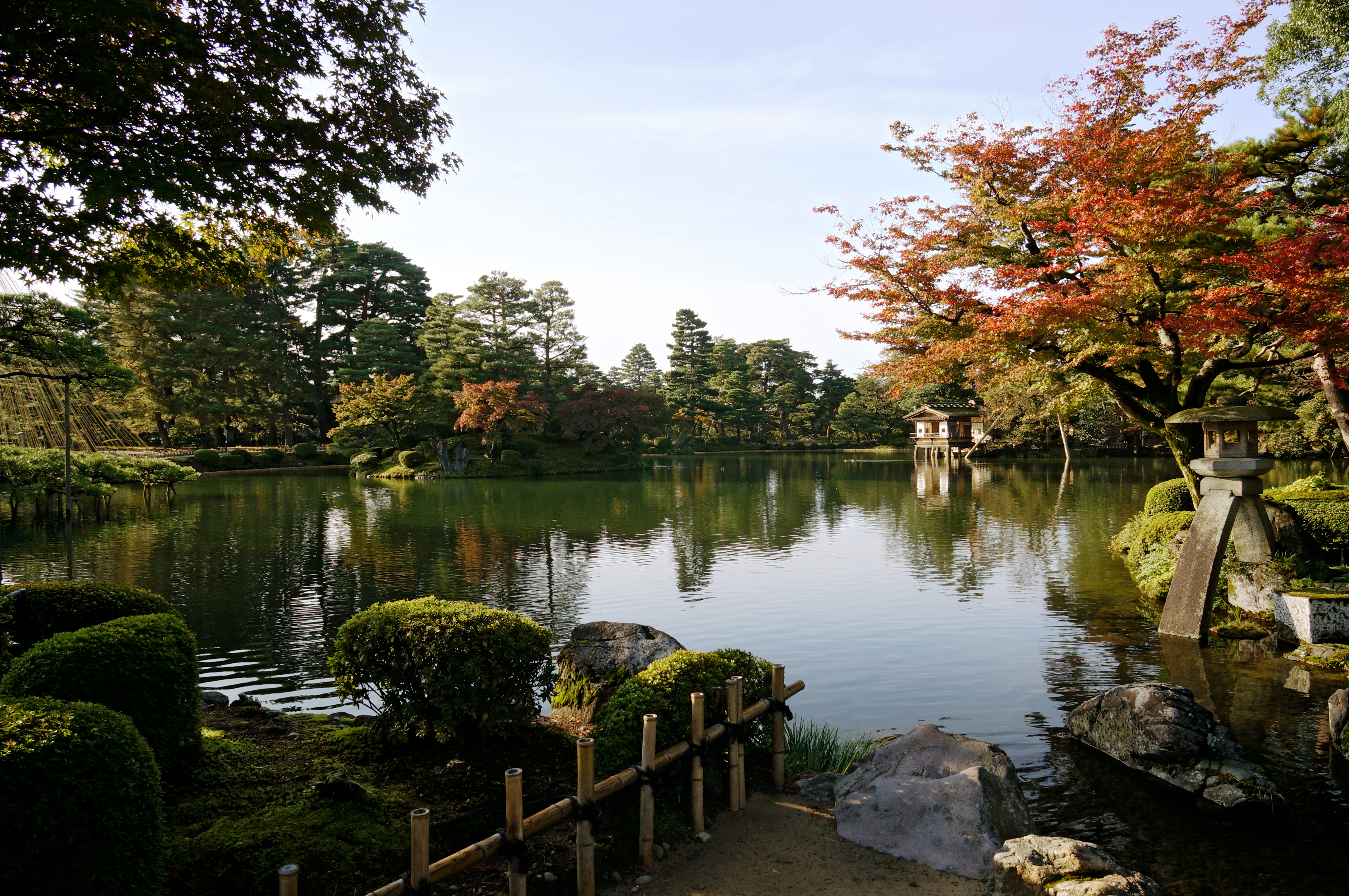 At Kenroku-en in Kanazawa, Ishikawa prefecture, Japan.